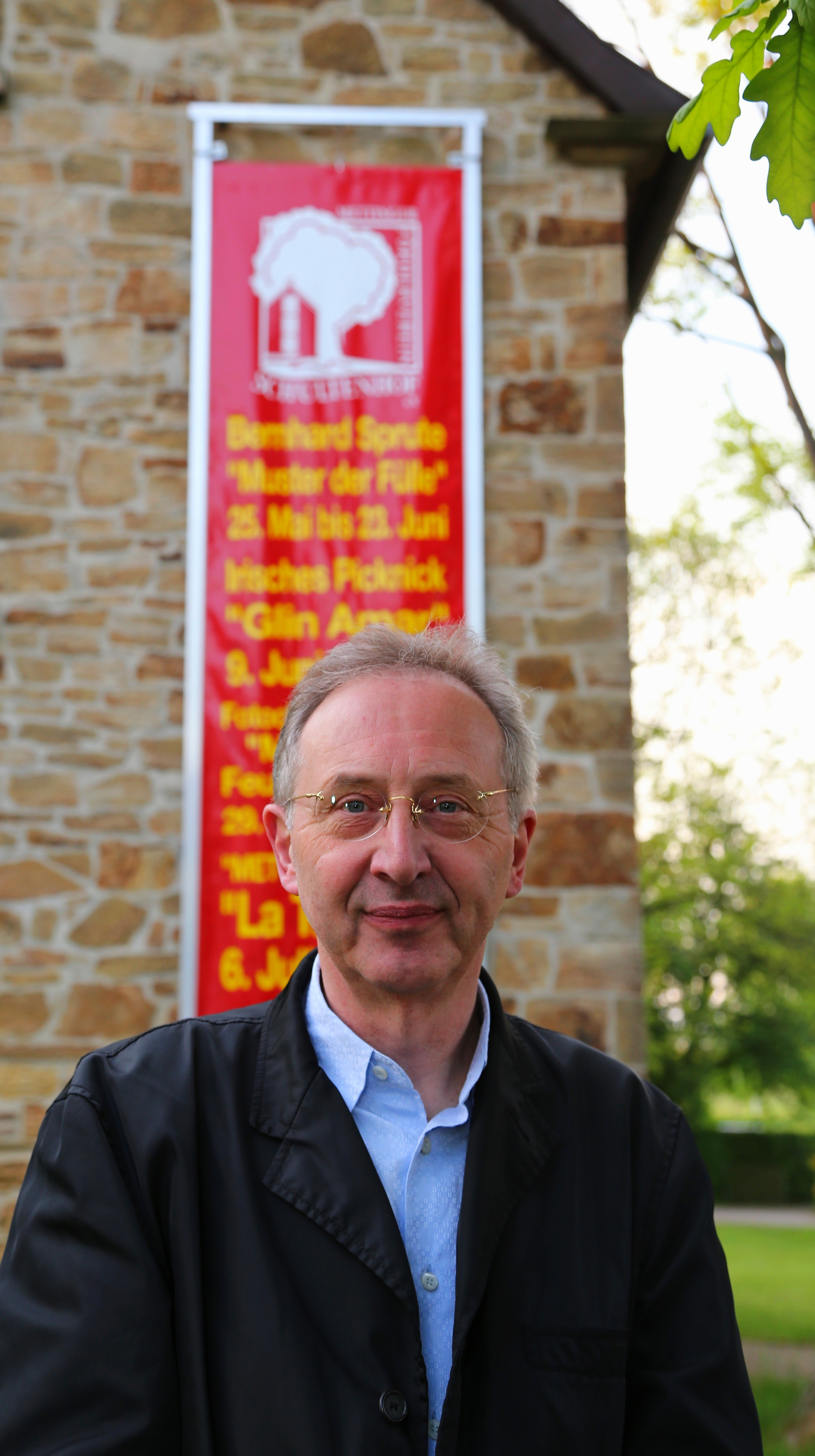 German painter and sculptor Bernhard Sprute. Picture was taken at the occasion of his art exhibition Muster der Fülle at the Kunstspeicher in Mettingen, Kreis Steinfurt, North Rhine-Westphalia, Germany.